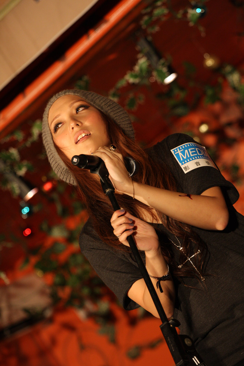 JillVidal2011